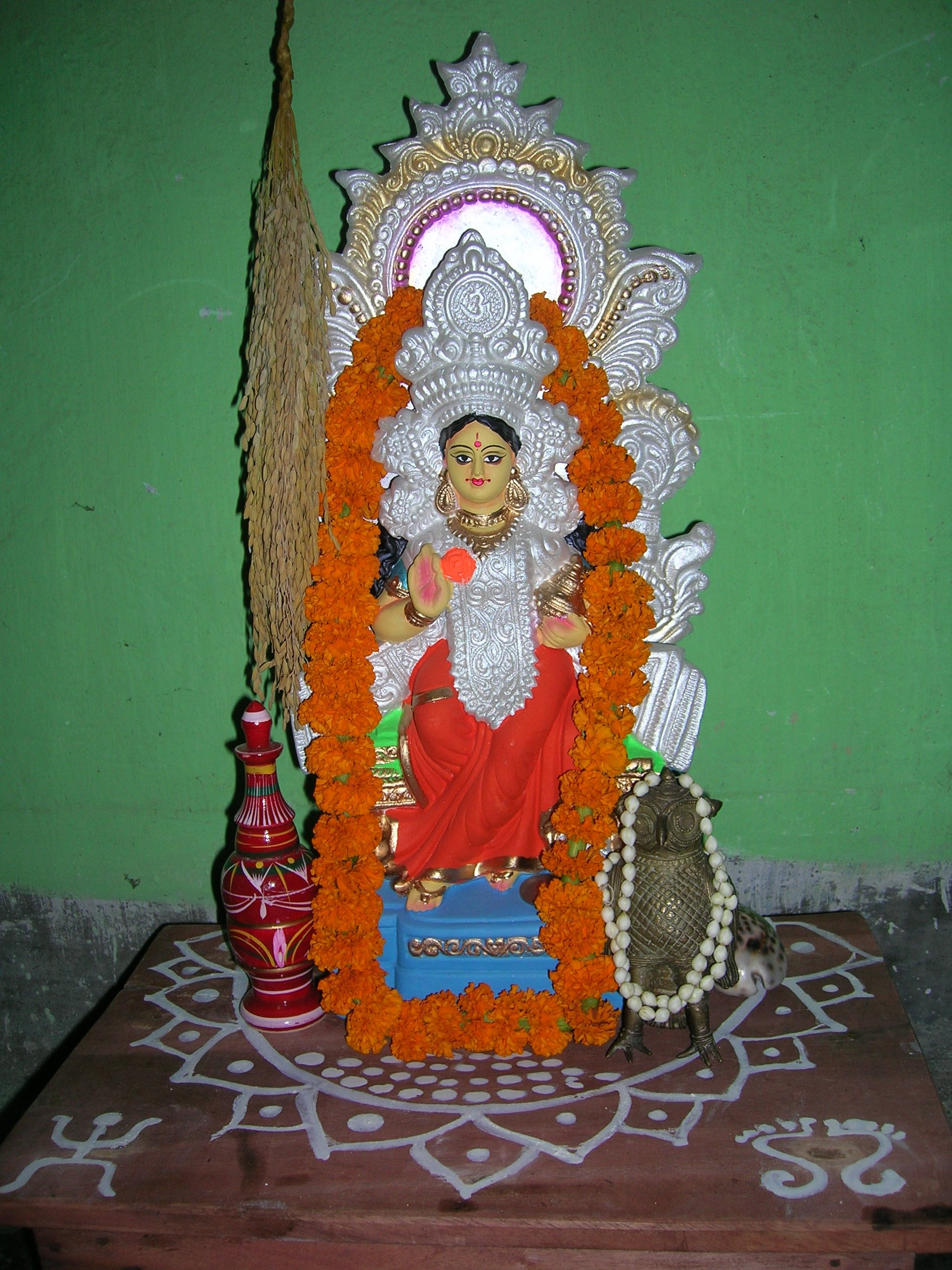 Idol of Goddess Laskmi on a alter decorated with alpana (Rangoli) on Kojagari Lakshmi Puja